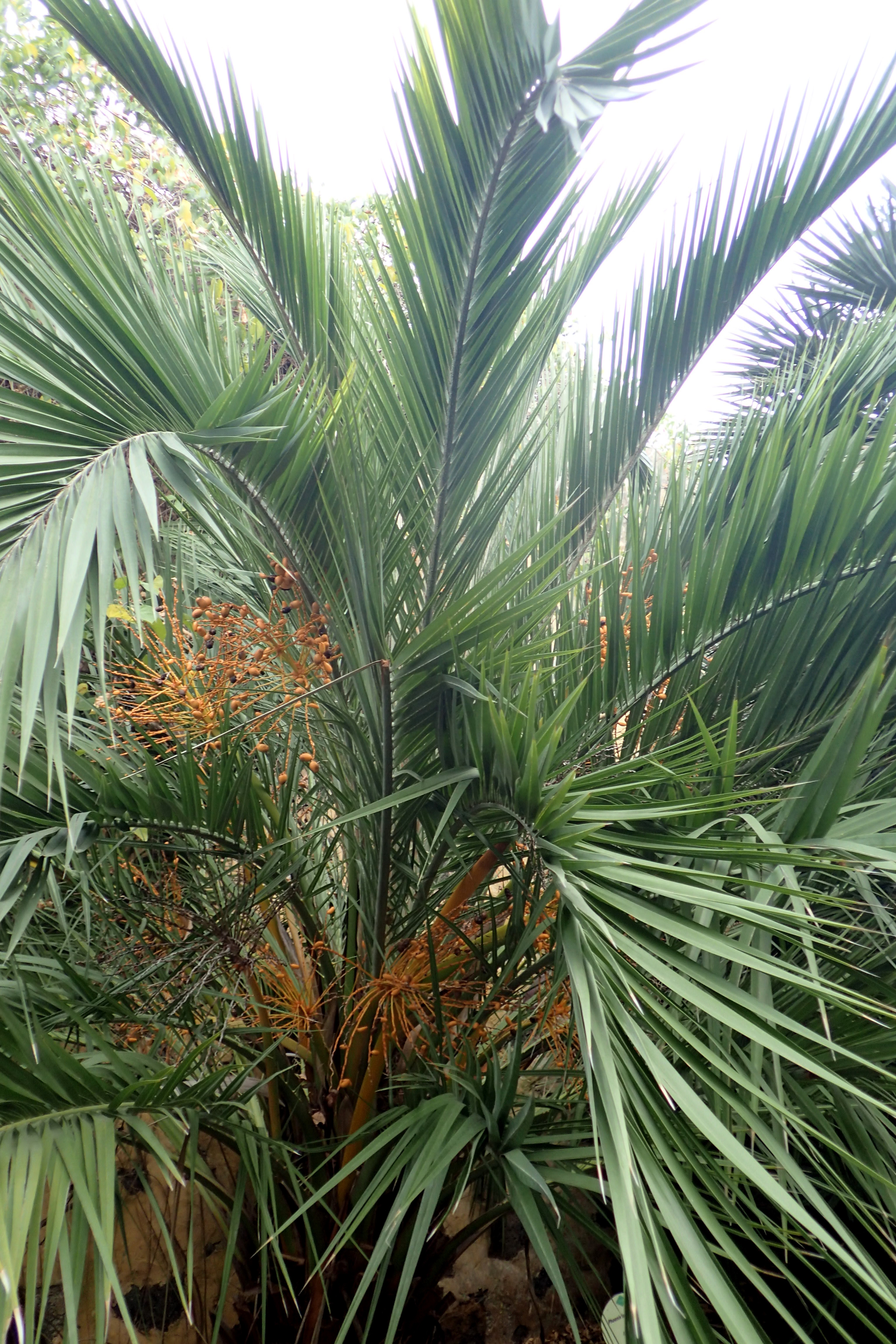 Phoenix loureiroi in Jardín de Aclimatación de la Orotava